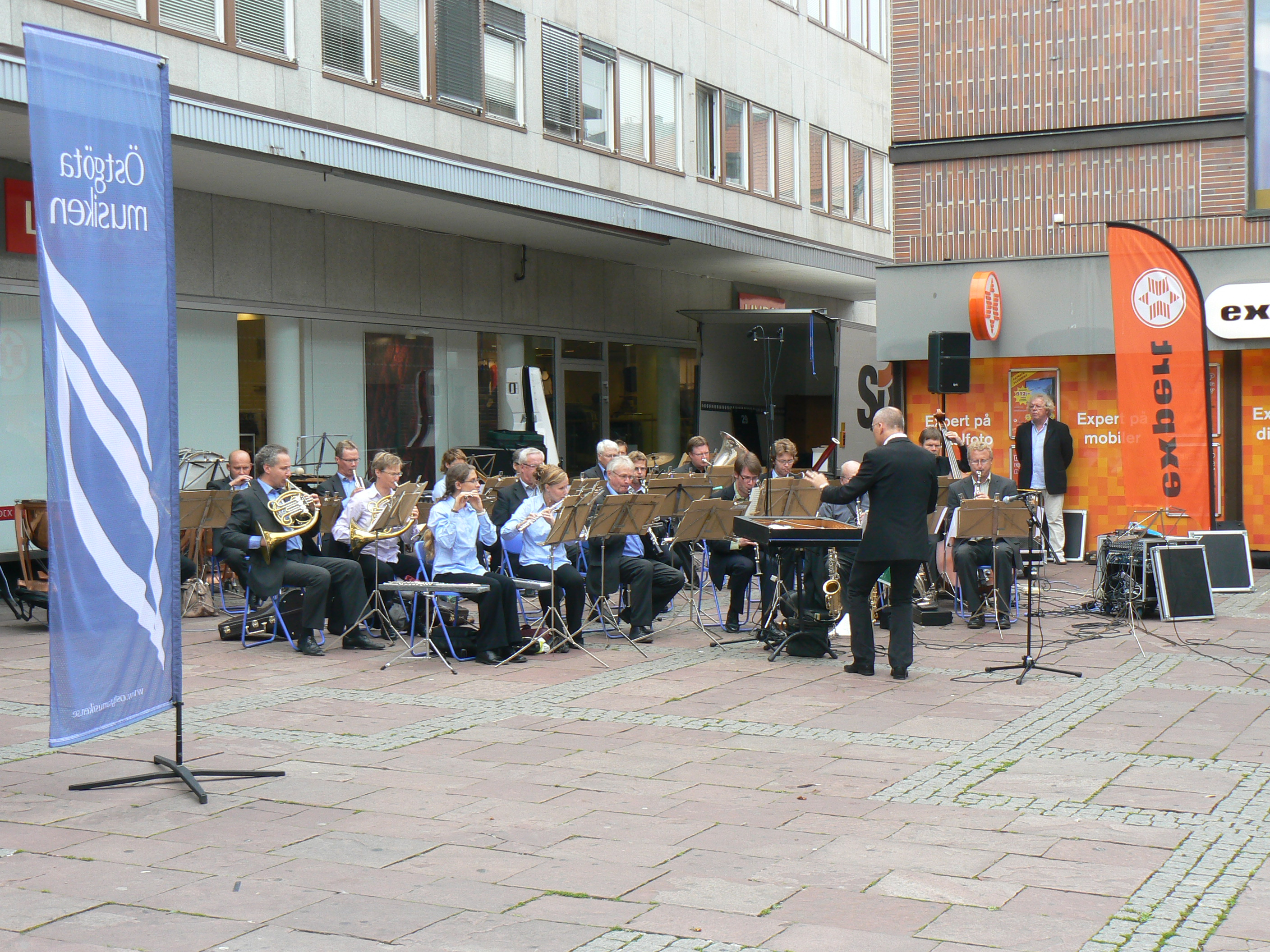 Östgöta Blåsarsymfoniker orchestra performing on Lilla torget square in Linköping, Sweden.